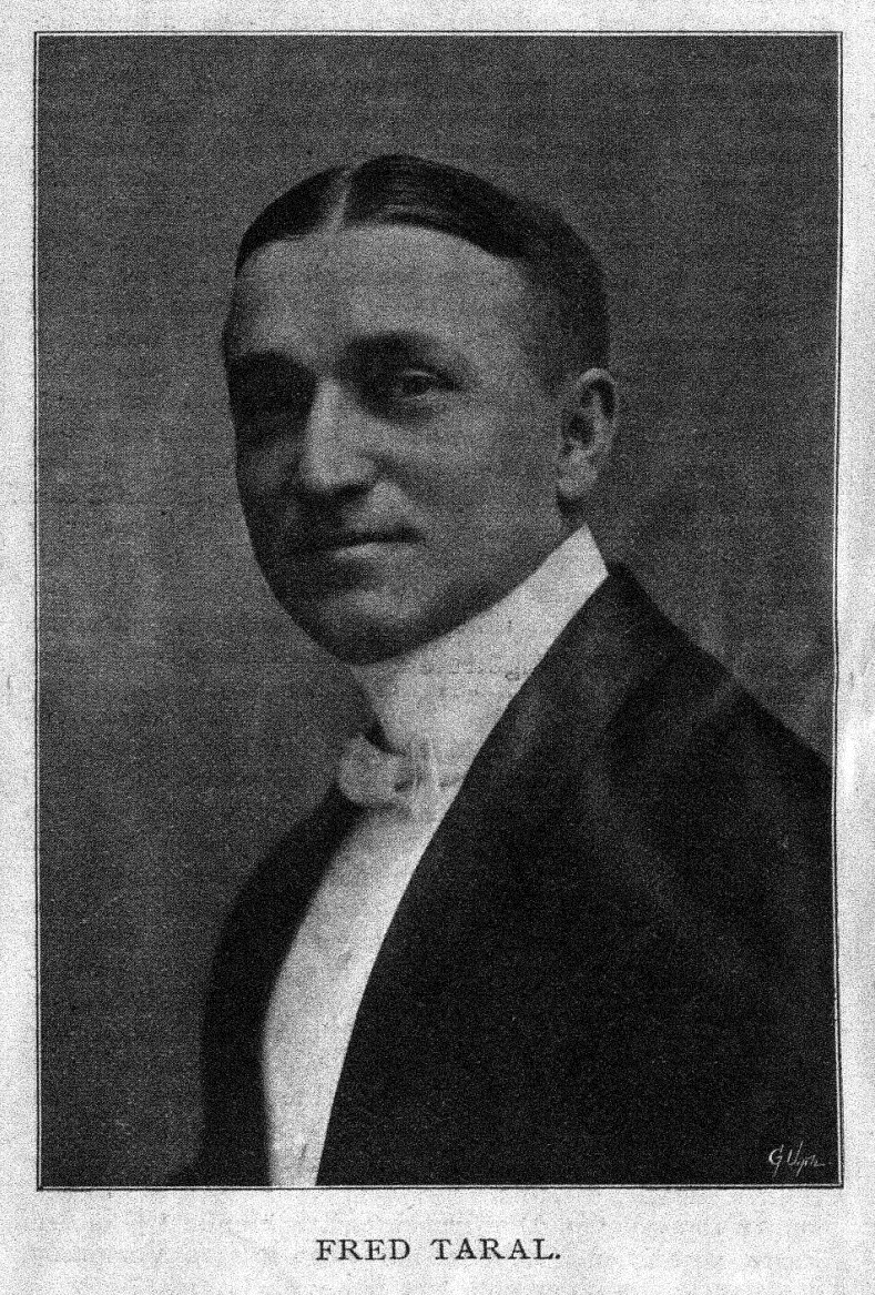 Portrait of Fred Taral (1867-1925), American jockey